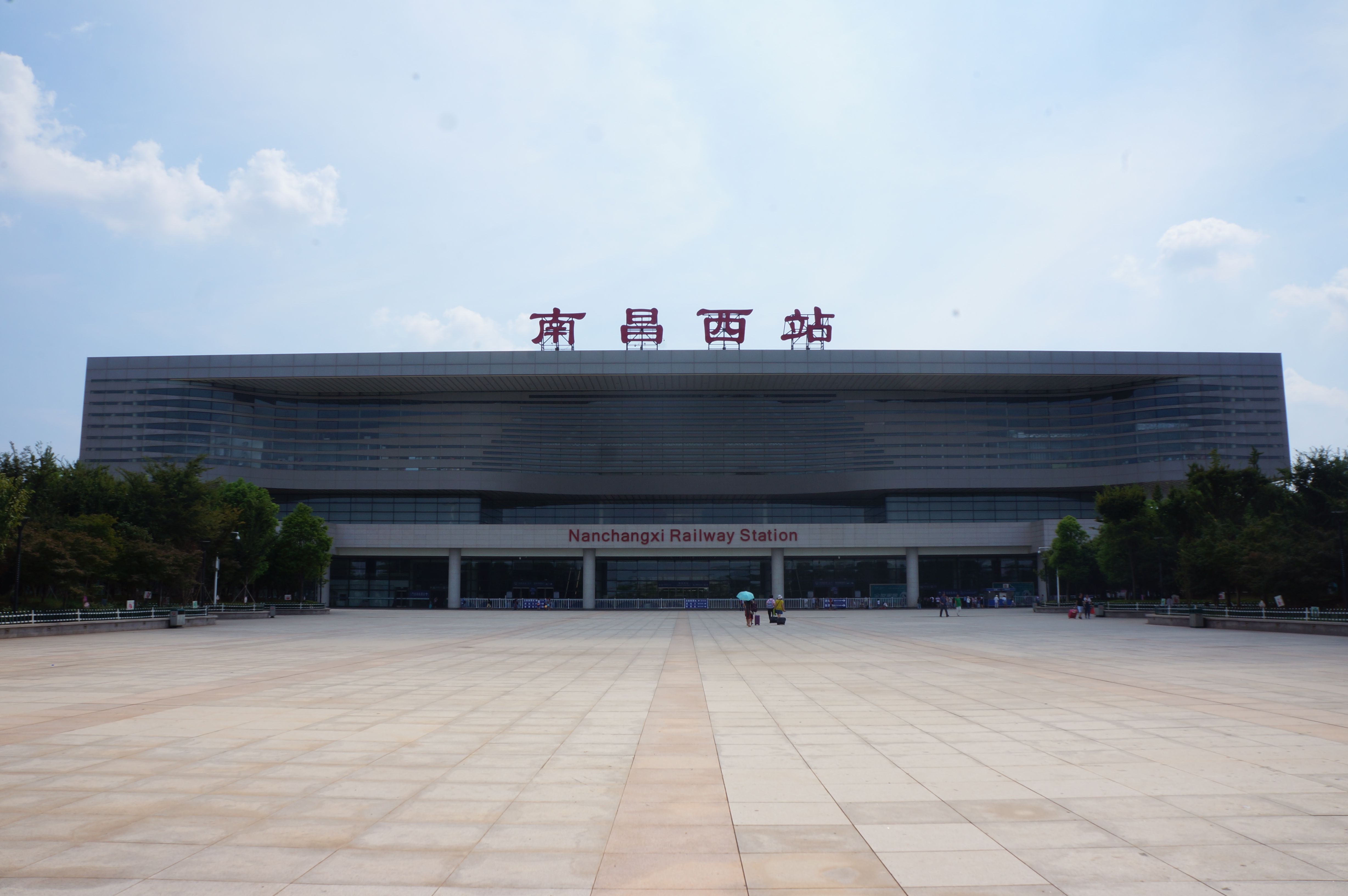 201608 Facade of Nanchangxi Railway Station (North)